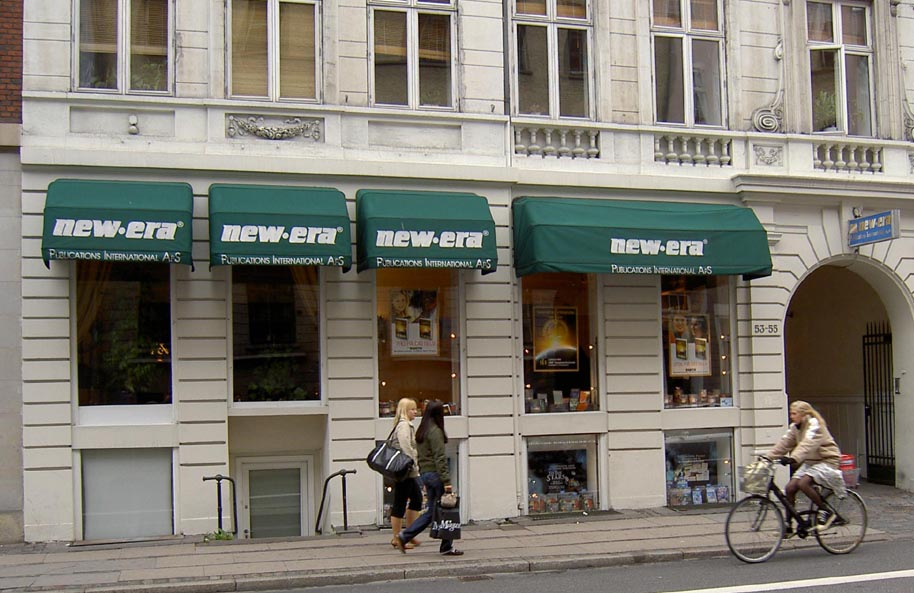 New Era Publications International ApS, Copenhagen. Behind the New Era headquarter is the Continental Liaison Office Europe, see Image:Cloe.jpg.